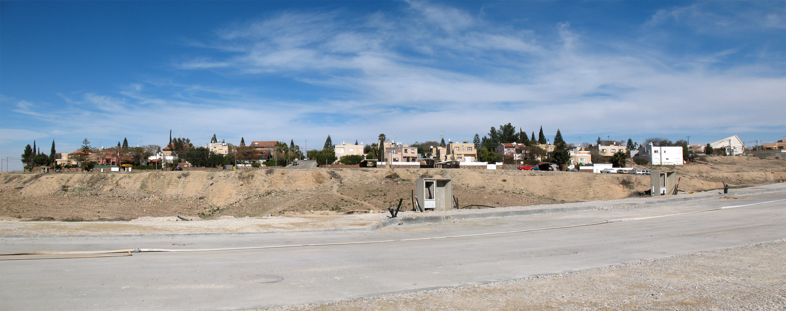 Shaked neighborhood panorama in Arad, Israel